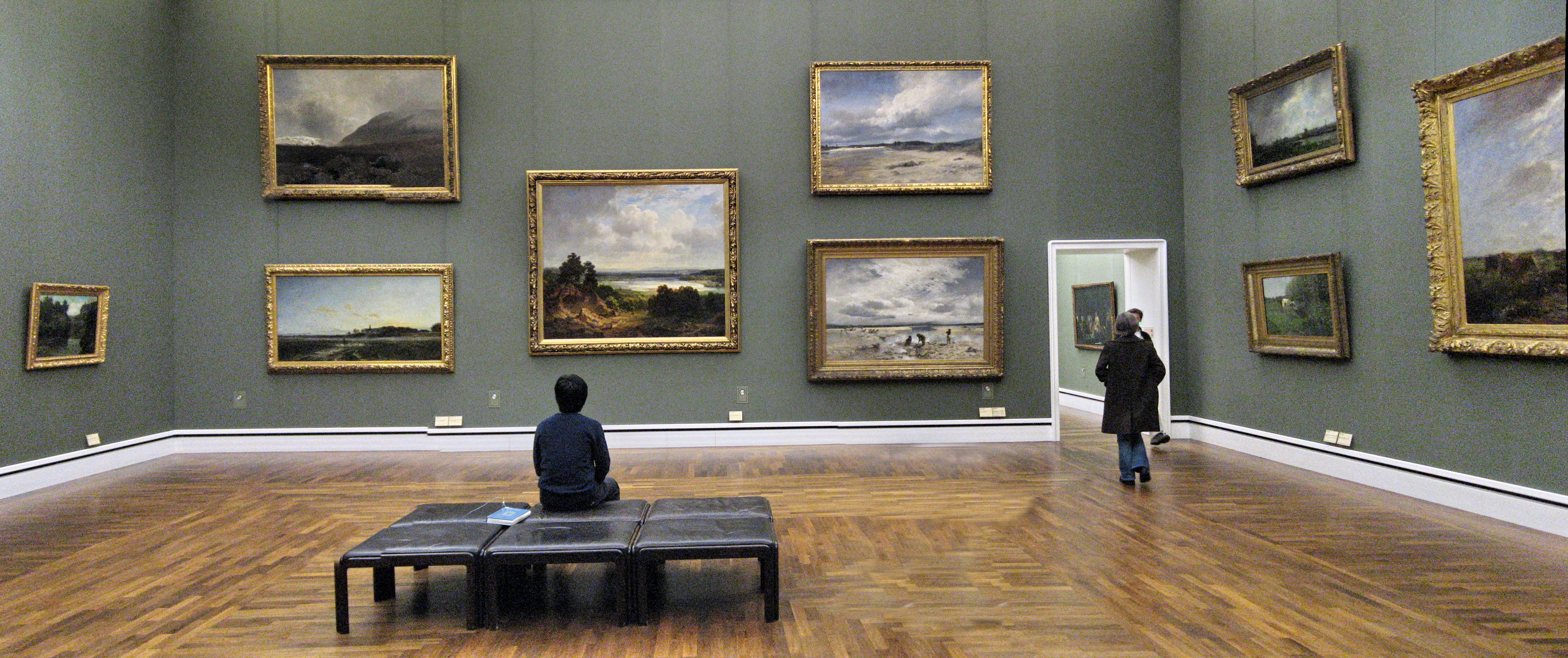 Interior view of one of the rooms of the Neue Pinakothek in Munich.